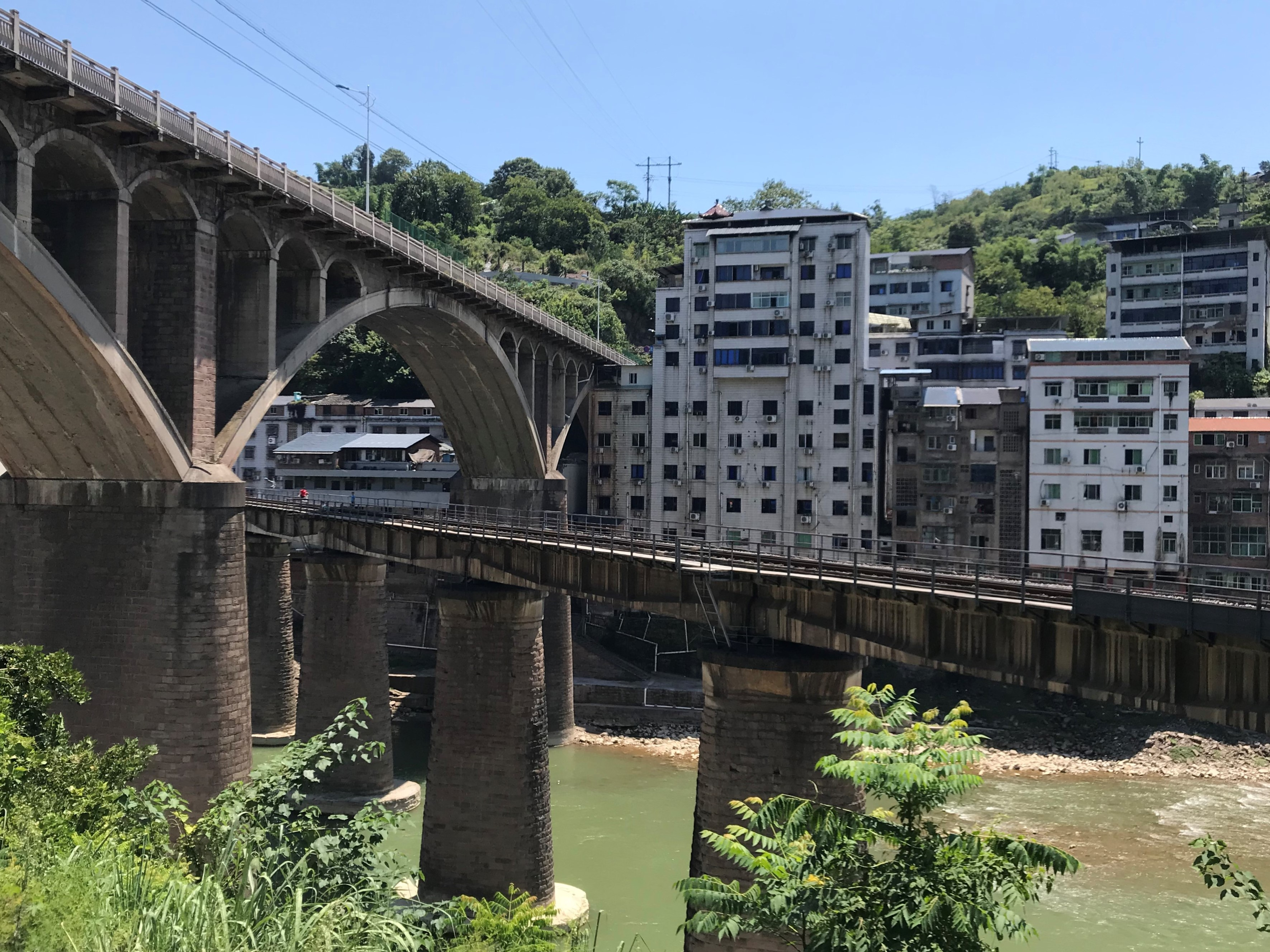 201908 Ganshi Bridge and Songzao Coal Line (2)